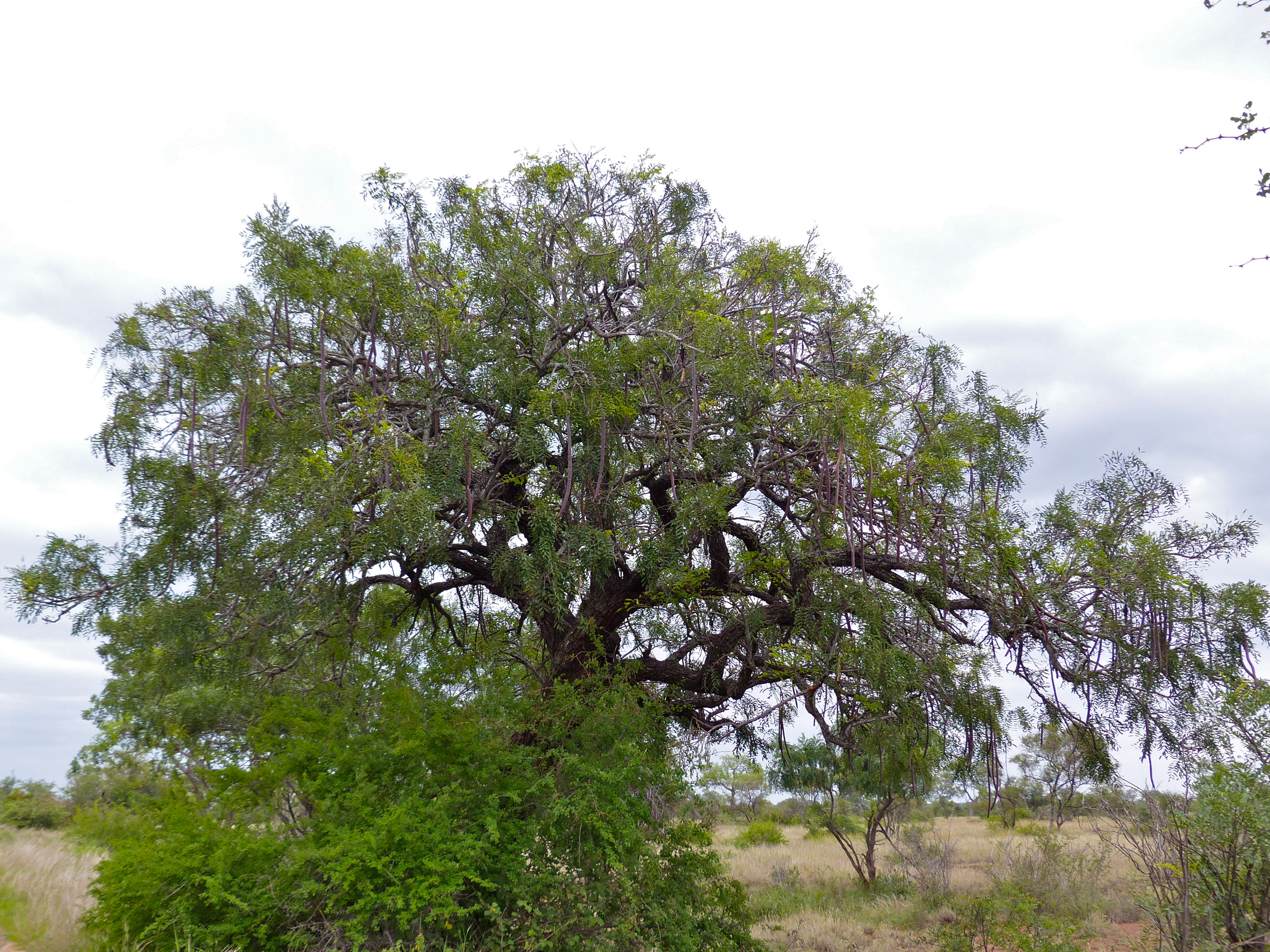 H7 Road West of Satara, Kruger NP, SOUTH AFRICA